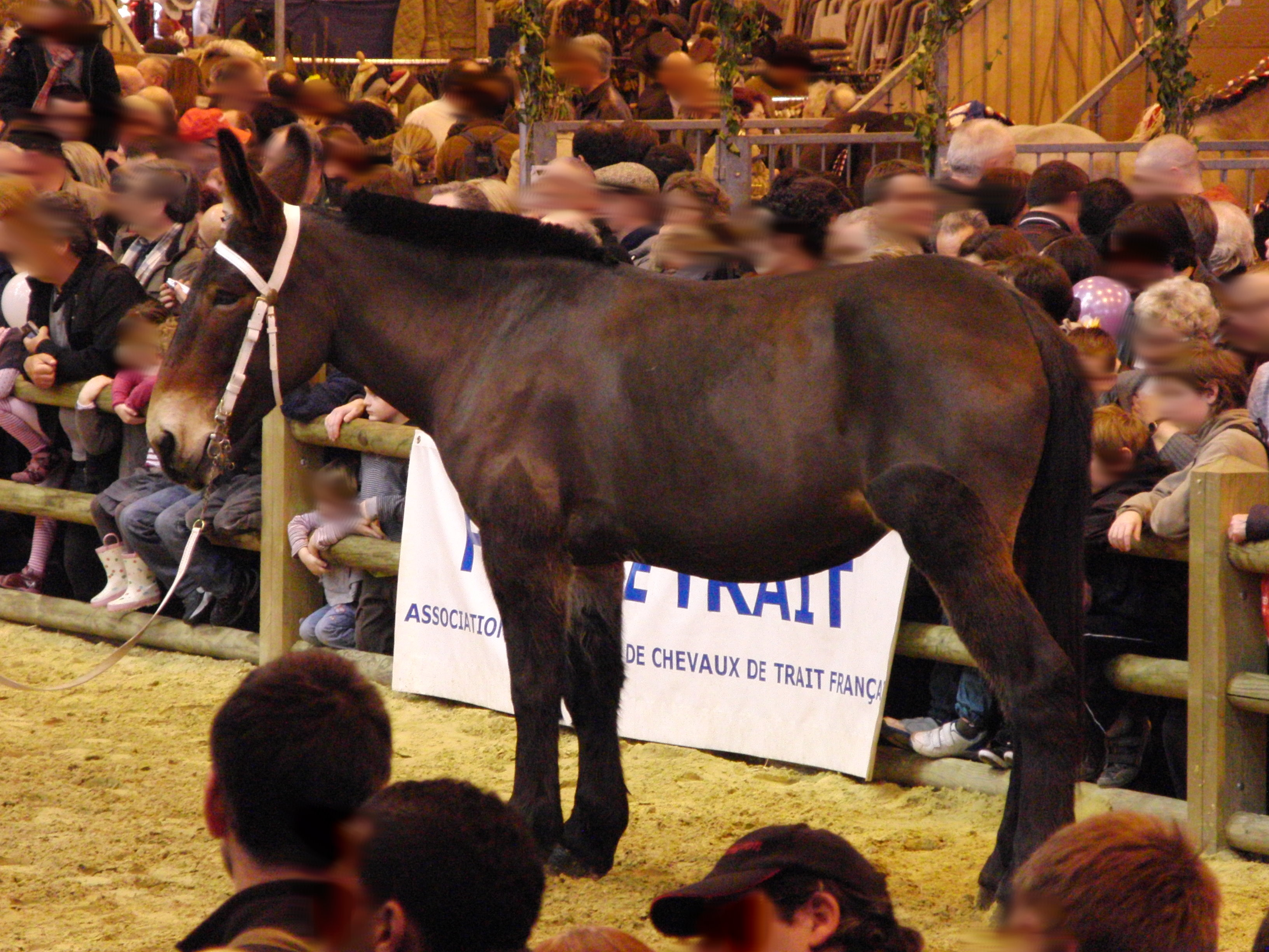 Poitevin mule during a show - Paris International Agricultural Show 2012, Paris, France